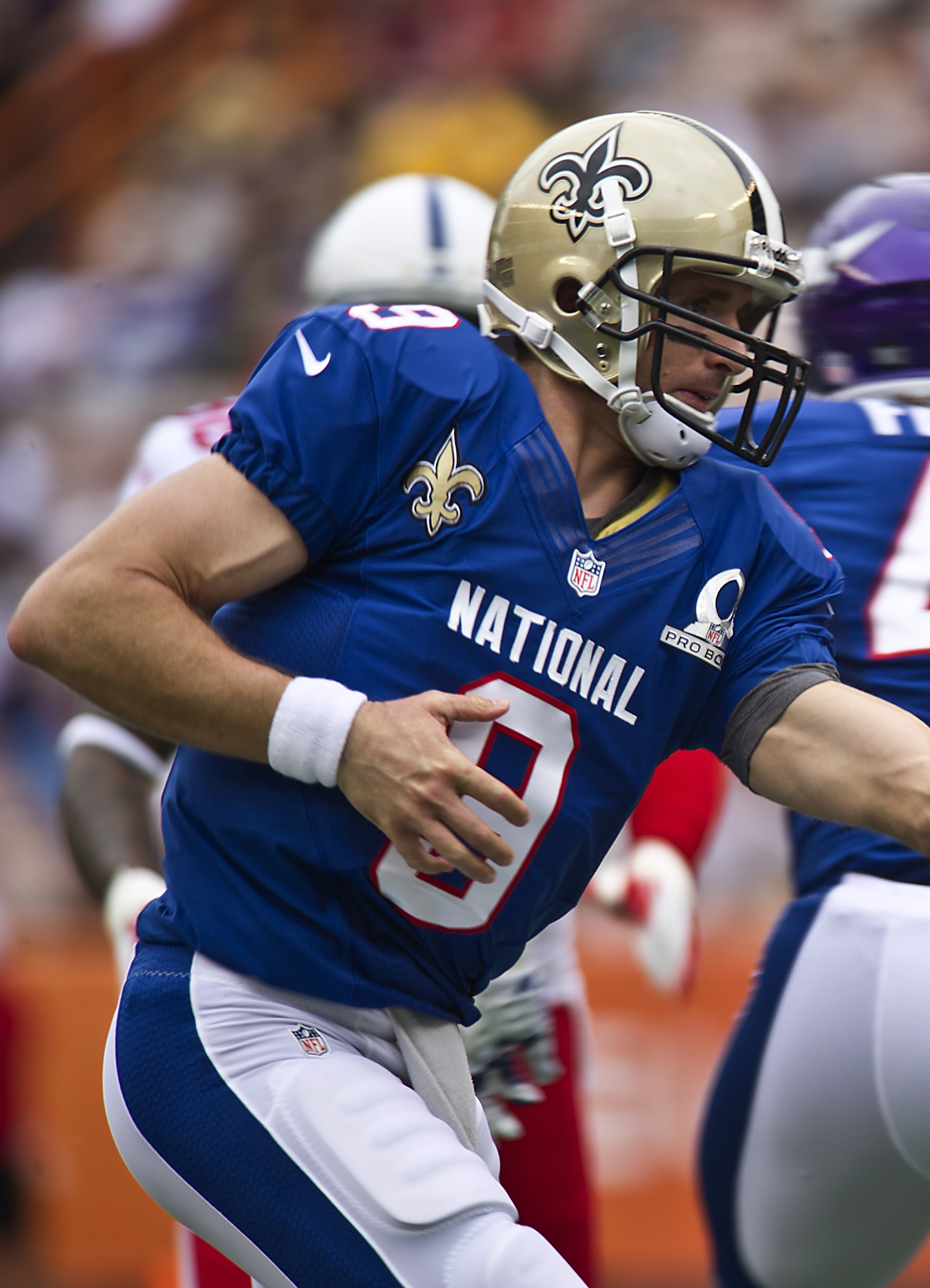 Drew Brees in 2013 Pro Bowl.